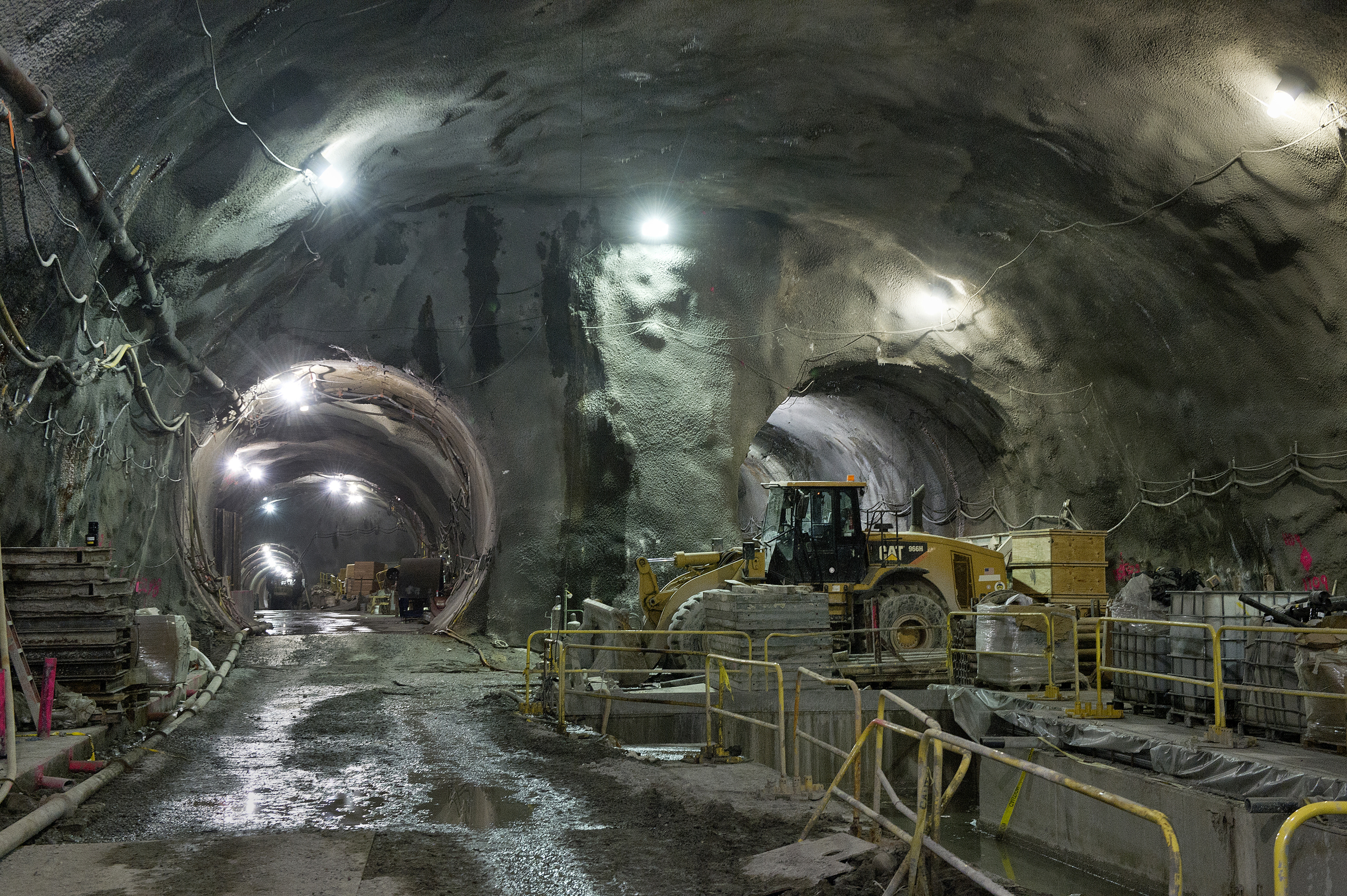 This photo shows the progress of construction on the Second Avenue Subway project's 72nd Street Station cavern and tunnels leading south as of Sept. 22, 2012.